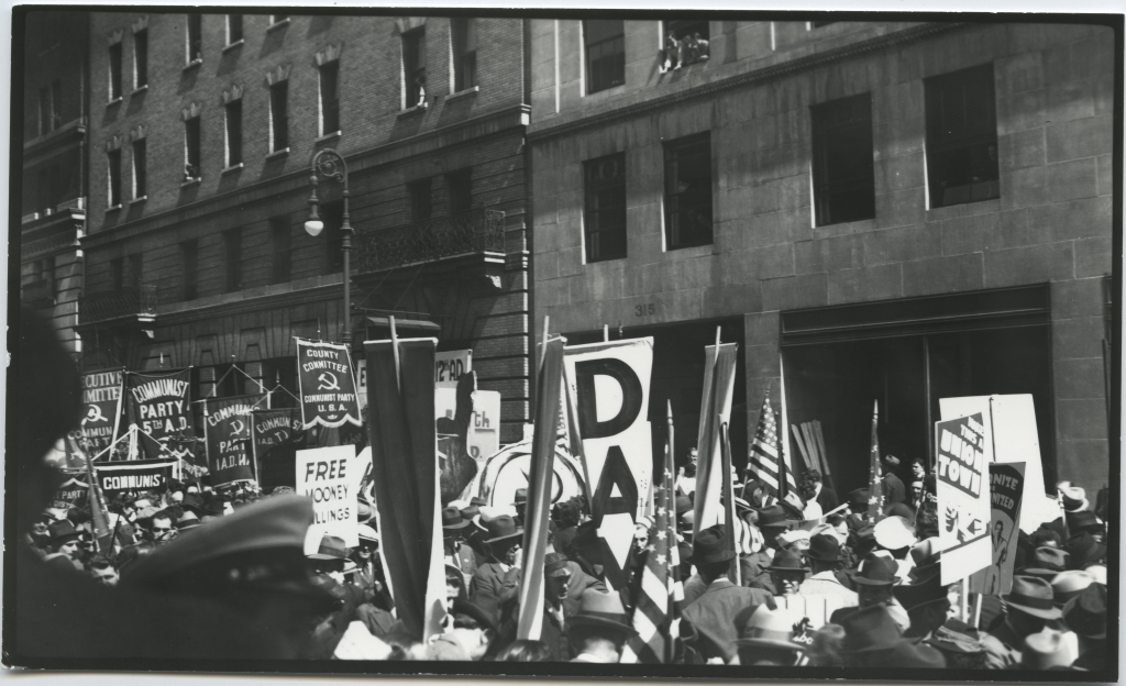 Viitekood / Reference code: ERAF.9595.1.20.23 Kirje andmebaasis FOTIS / Description in the database FOTIS